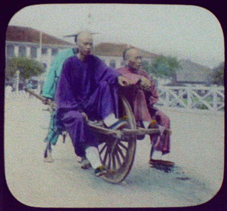 Title: Shanghai - two Chinese men being carried in wheelbarrow Physical description: 1 slide : lantern, hand colored ; 3.25 x 4 in. Notes: Forms part of: Jackson, William Henry, 1843-1942. World's Transportation Commission photograph collection (Library of Congress).; Gift; William P. Meeker; 1971.